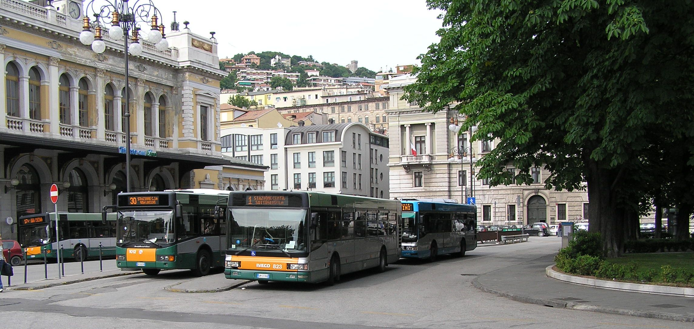 A Trieste Trasporti BMB M231 MU bus (#1012) built 2001 and Iveco 491E.12 CityClass bus (#823) built 2001.